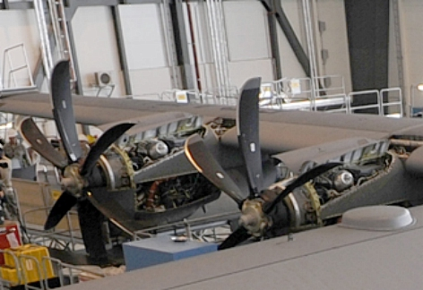 Rolls-Royce AE 2100D3 turboprop engines of a U.S. Air Force Lockheed C-130J Hercules on 26 May 2010, at Ramstein Air Base, Germany. Members of the 86th Maintenance Squadron isochronal inspection team performed an inspection. This is the first C-130J all active-duty isochronal inspection done in the USAF.